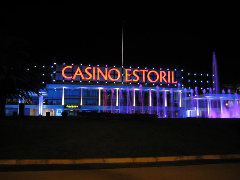 Casino Estoril seen at night.